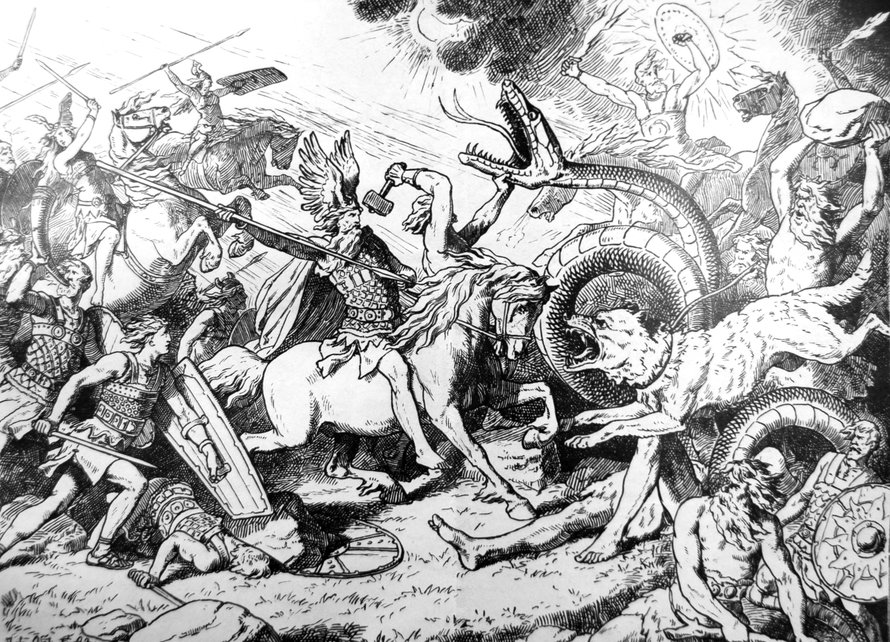 Ragnarok. Xylograph after a painting/drawing.